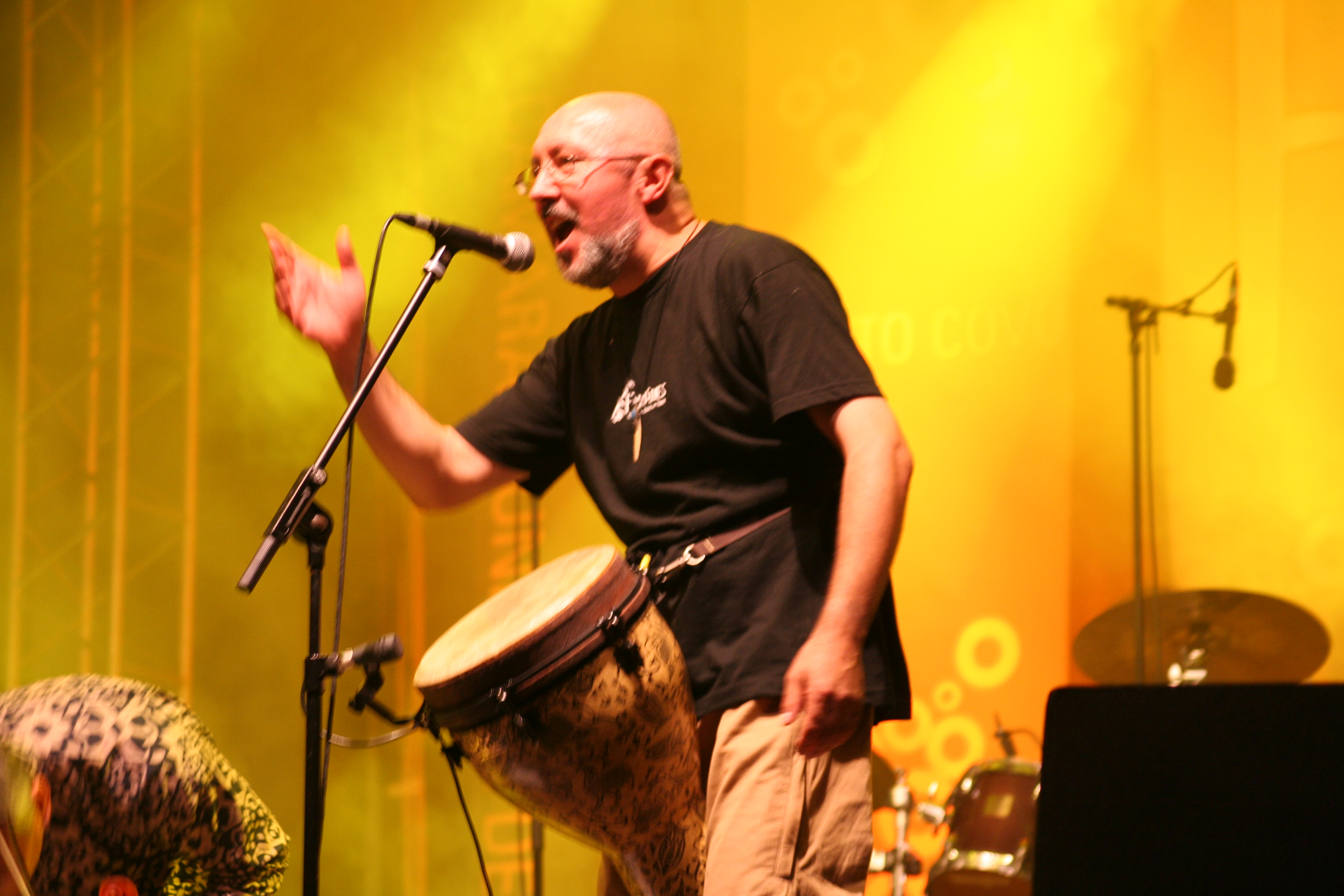 Djabé from Hungaria at FMM in Sines 2007